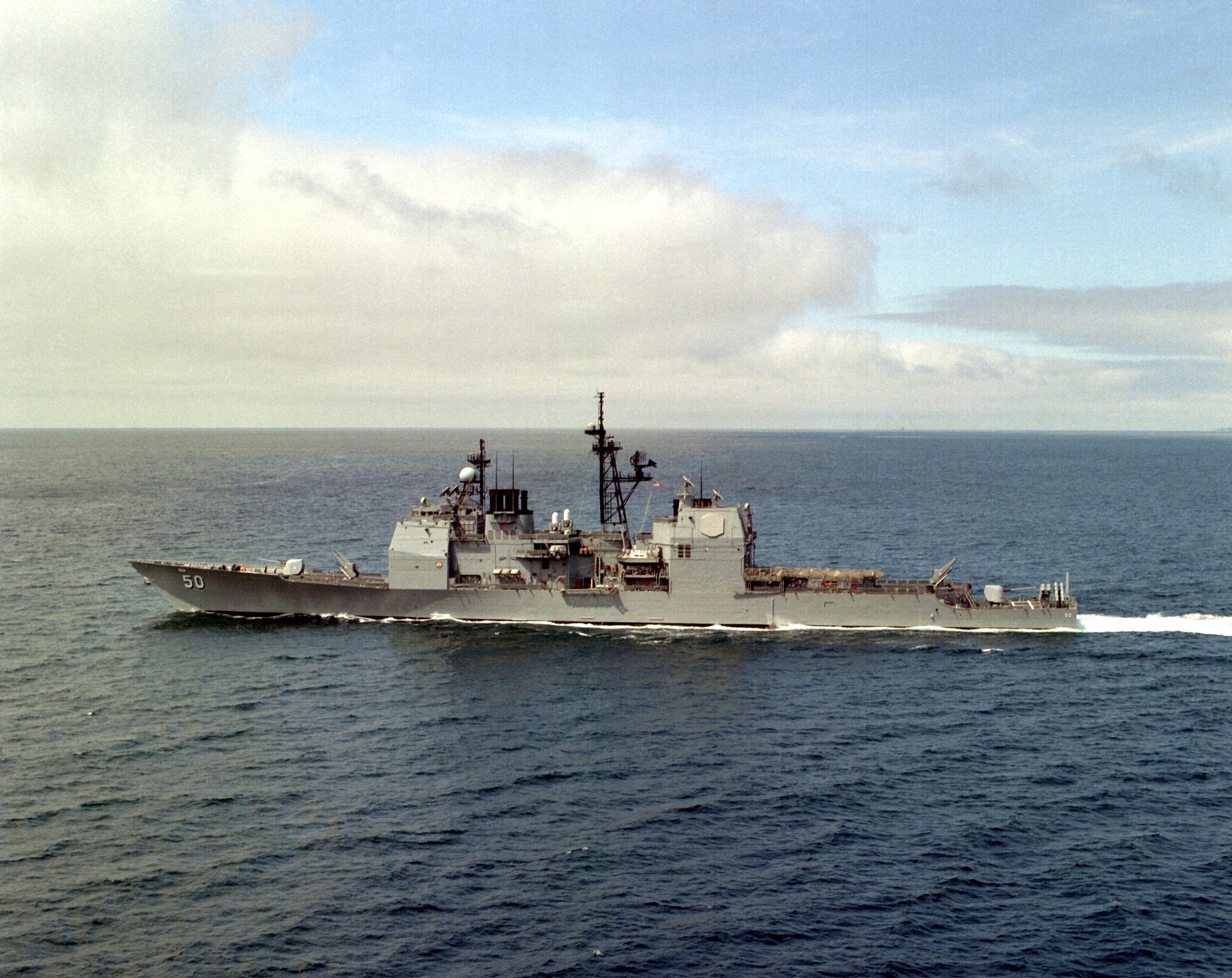 The U.S. Navy guided missile cruiser USS Valley Forge (CG-50) underway off the coast of San Diego, California (USA), on 4 April 1987.